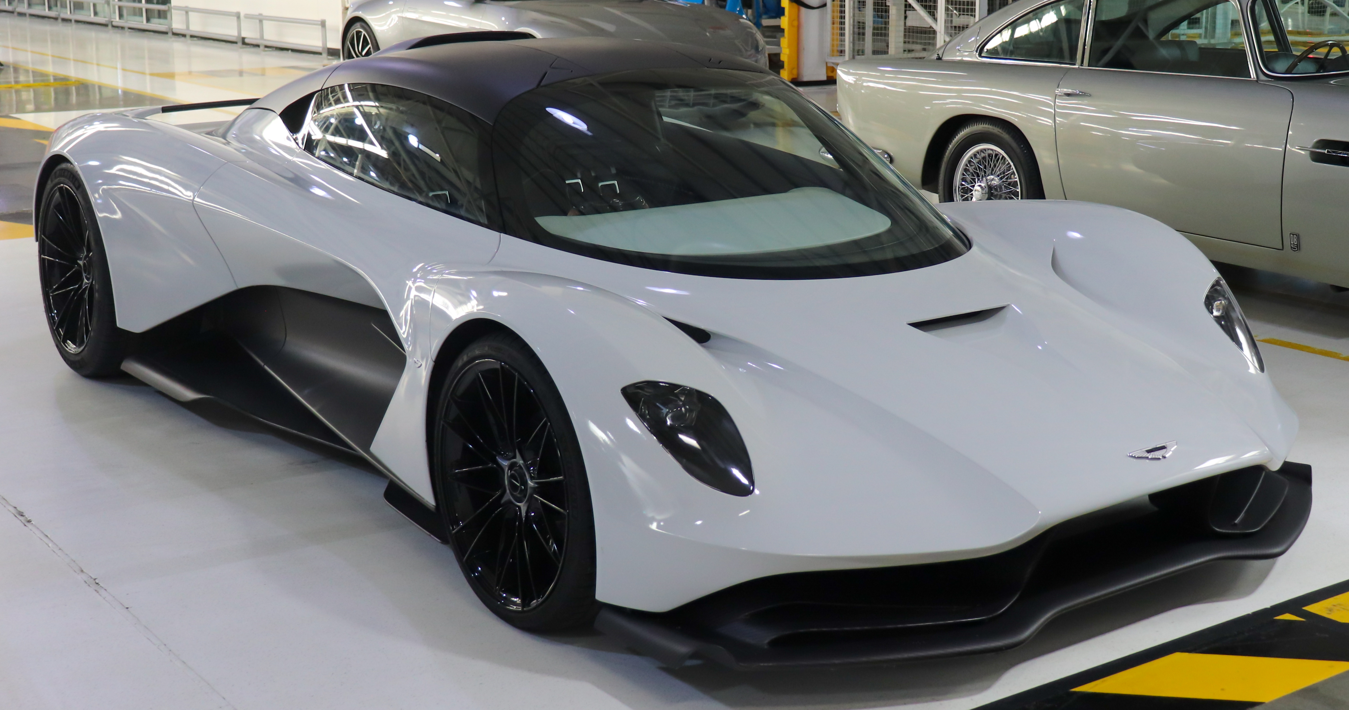 2019 Aston Martin AM-RB 003 Front Taken at the Aston Martin Lagonda factory, Gaydon